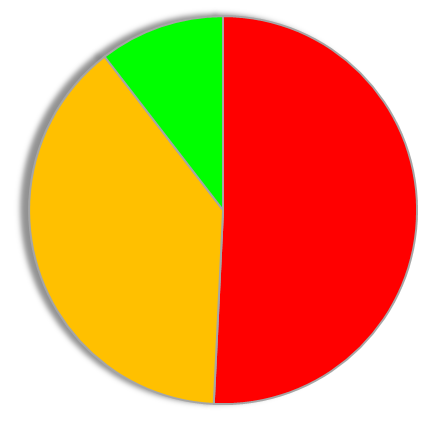 Expressed as a pie chart in the Nara gubernatorial election in 2011, the number of votes for each candidate. explanatory notes ■ - Shogo Arai ■ - Shunji Shiomi ■ - Shigekazu Kitano